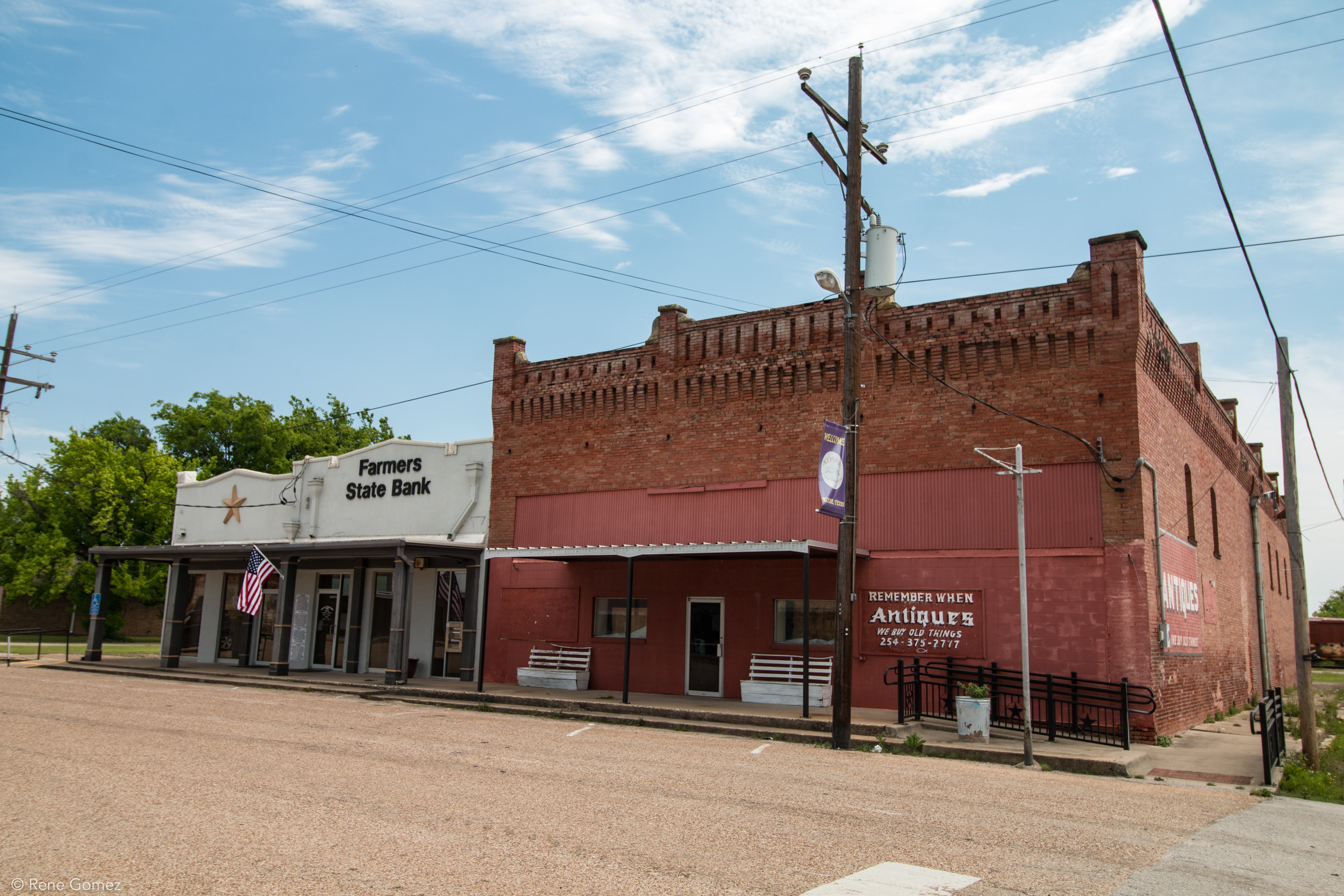 Bank building in Kosse, Texas